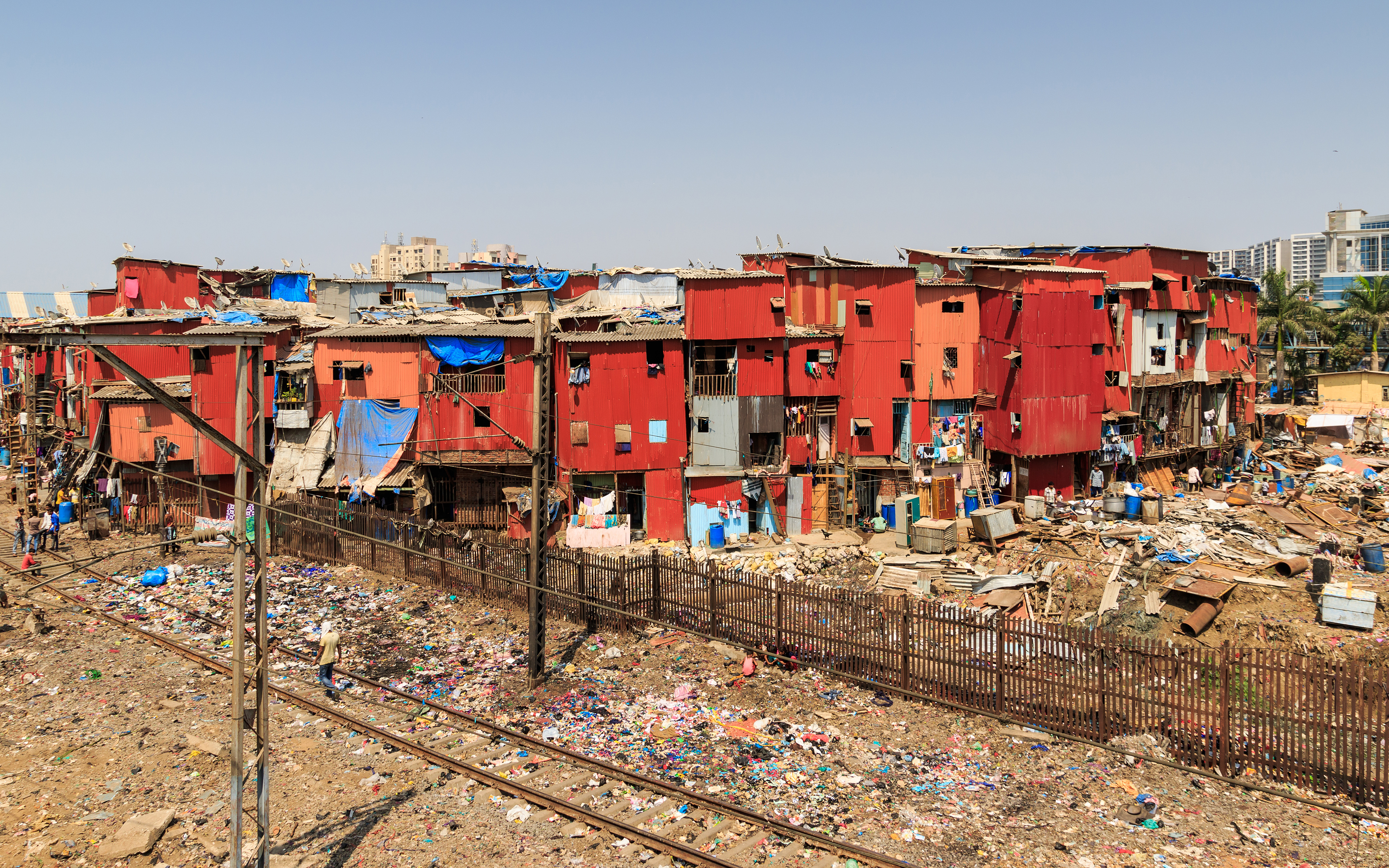 Near surroundings of Bandra railway station in Mumbai, India